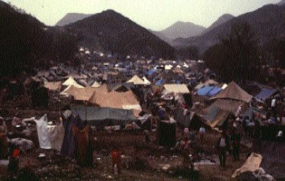 Kurdish refugees struggle to survive in camp sites along the Turkey-Iraq border, 1991.